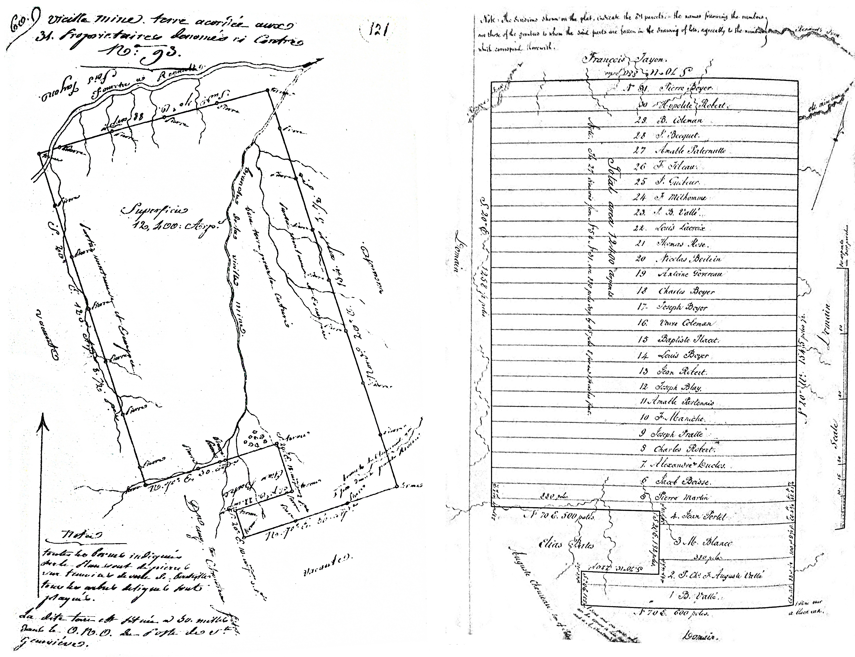 The interior and exterior surveys of the Old Mines land concession. The interior survey shows the original owner, assigned by lottery, of each 400-arpent plot. The apparent curved lines are an artifact of the creation of this reproduction; the surveyed lines were straight.